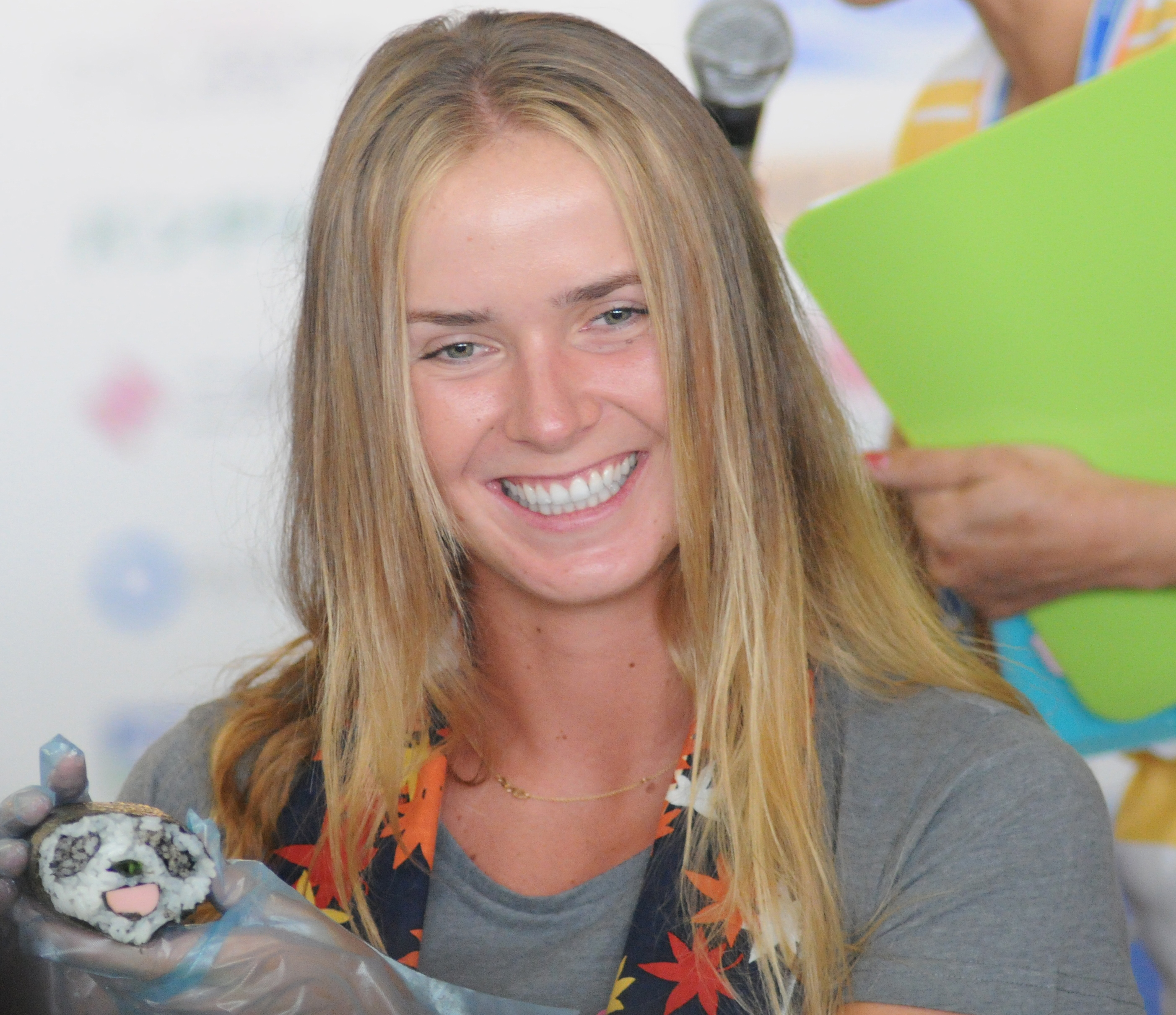 Elina Svitolina at the 2014 Toray Pan Pacific Open